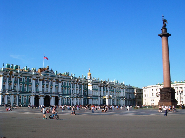 Palace Square, Saint Petersburg.